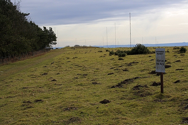 Footpath, Above Rowbrow Wood The aerials in the distance are part of the wireless station known as 'GCHQ Scarborough'. Apparently it is a Composite Signals Organisation (CSO) station.